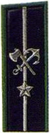 Insignia officials of the Ministry of Railways of the Russian Empire. Rank XIV